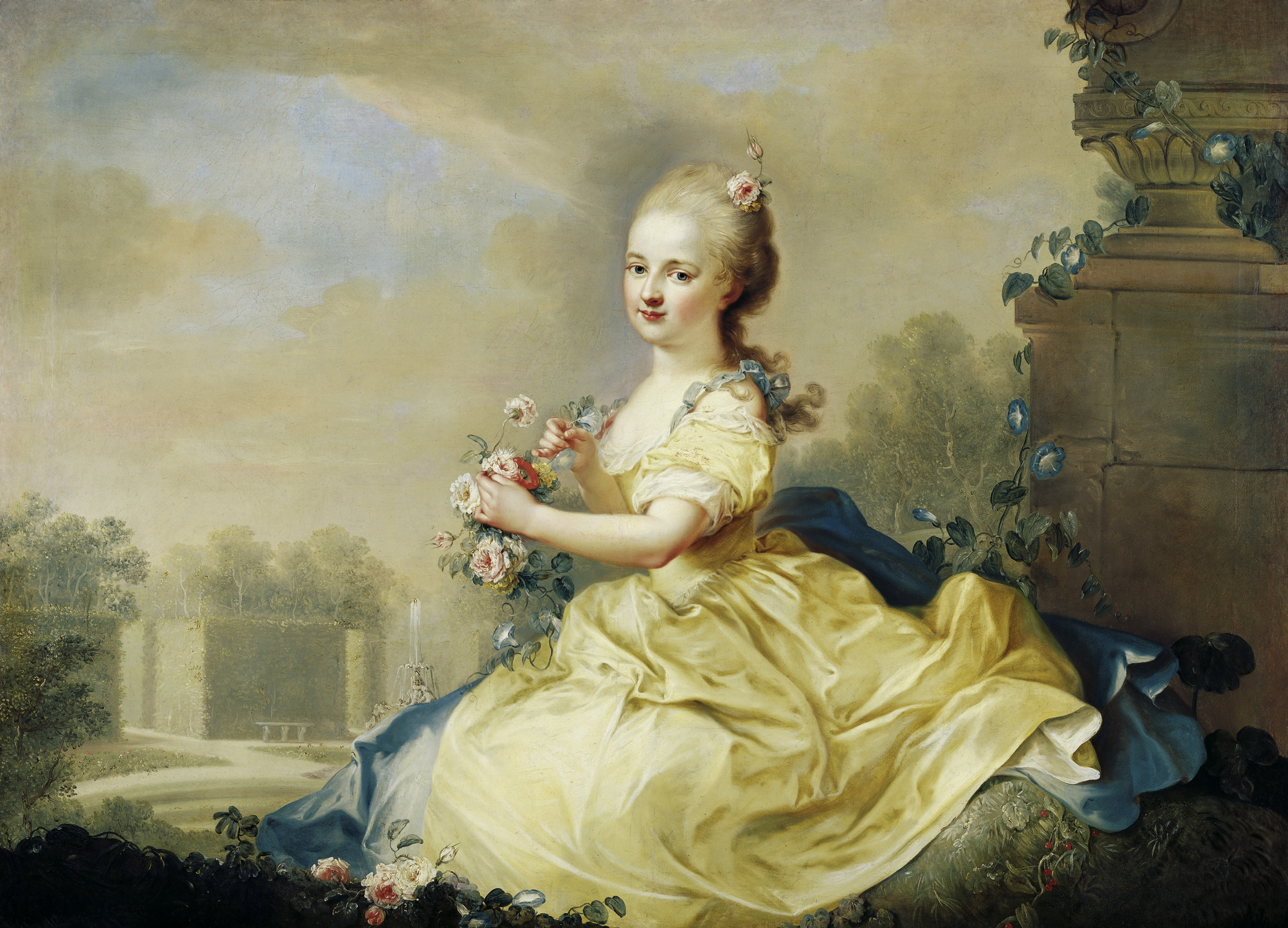 Princess Maria Josepha Hermenegilde von Liechtenstein (1768-1845)